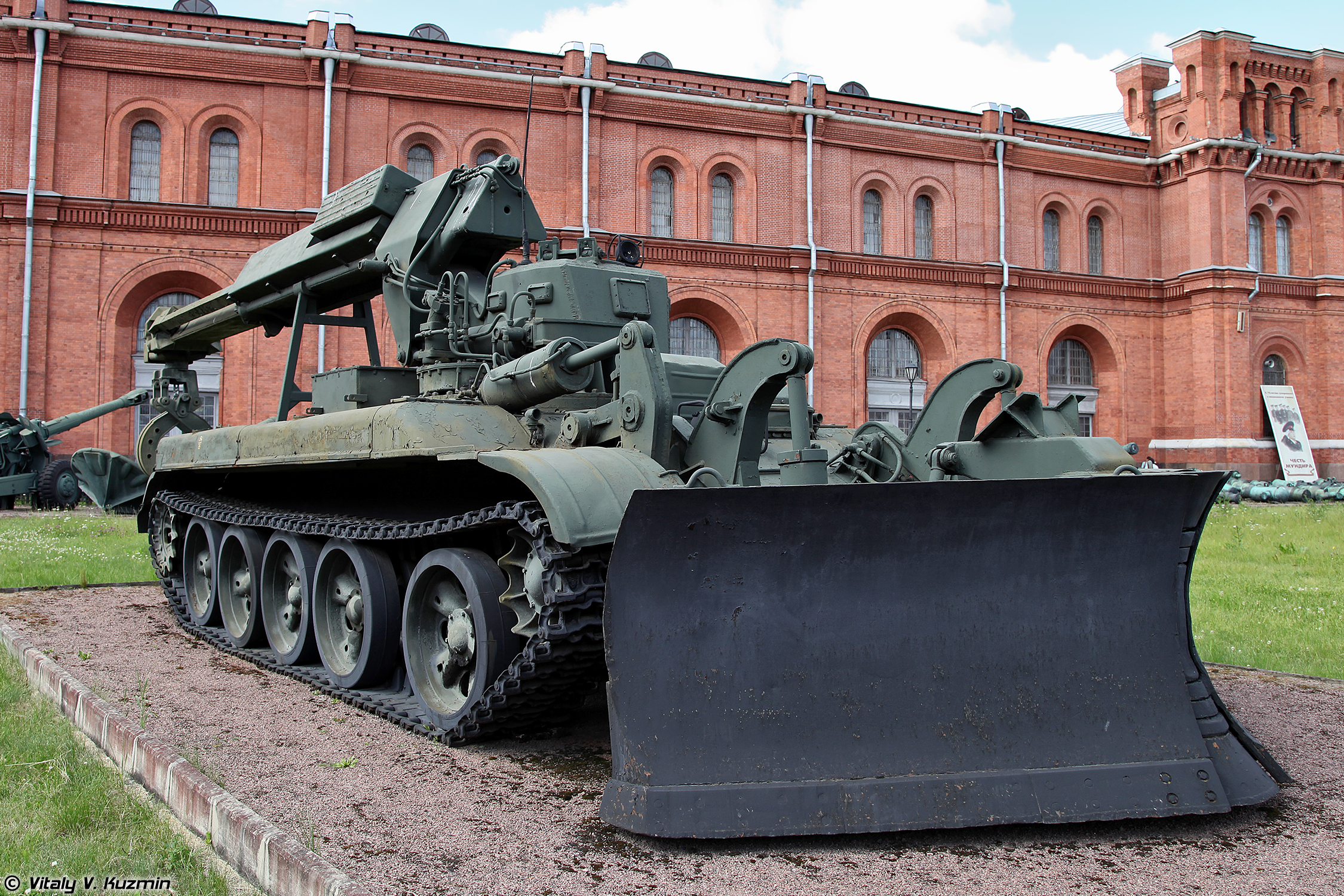 Engineering vehicle IMR